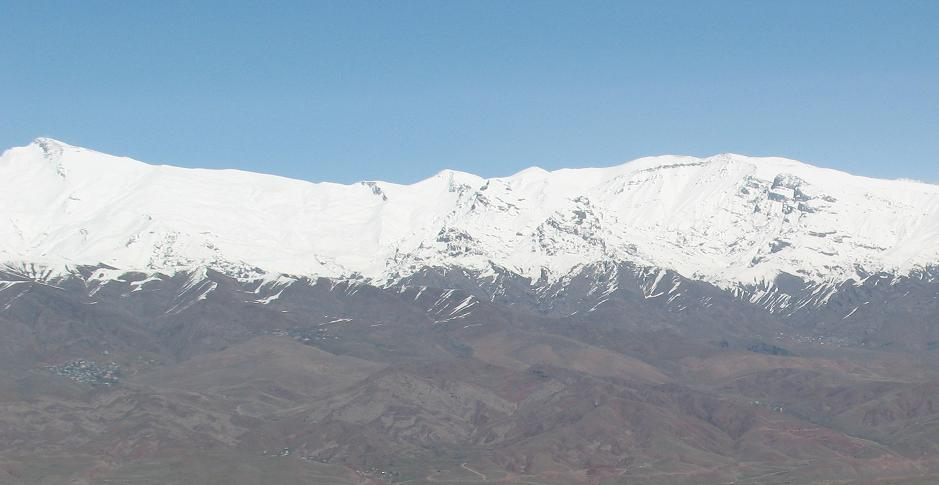 Shah Alborz Mountains, Iran.